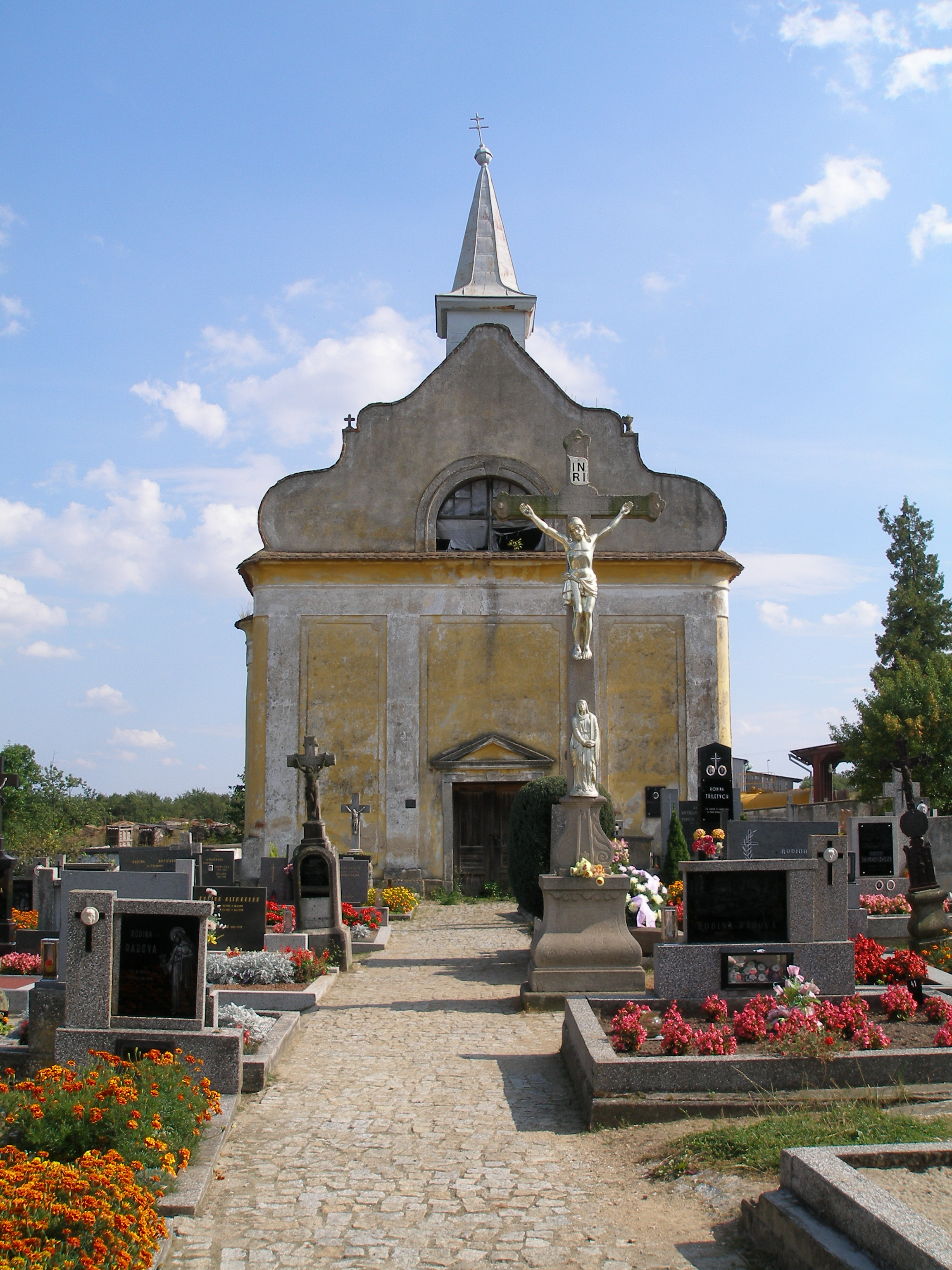 Dešná (Jindřichův Hradec district) - the cemetary chapel